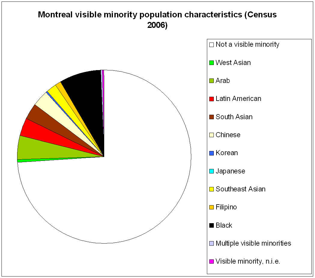 Pie chart showing Montreal's visible minority population characteristics according to Canada Census 2006.